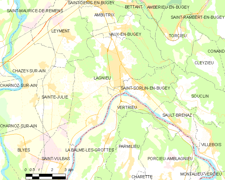 Map of French commune: Lagnieu Map commune FR insee code 01202.png